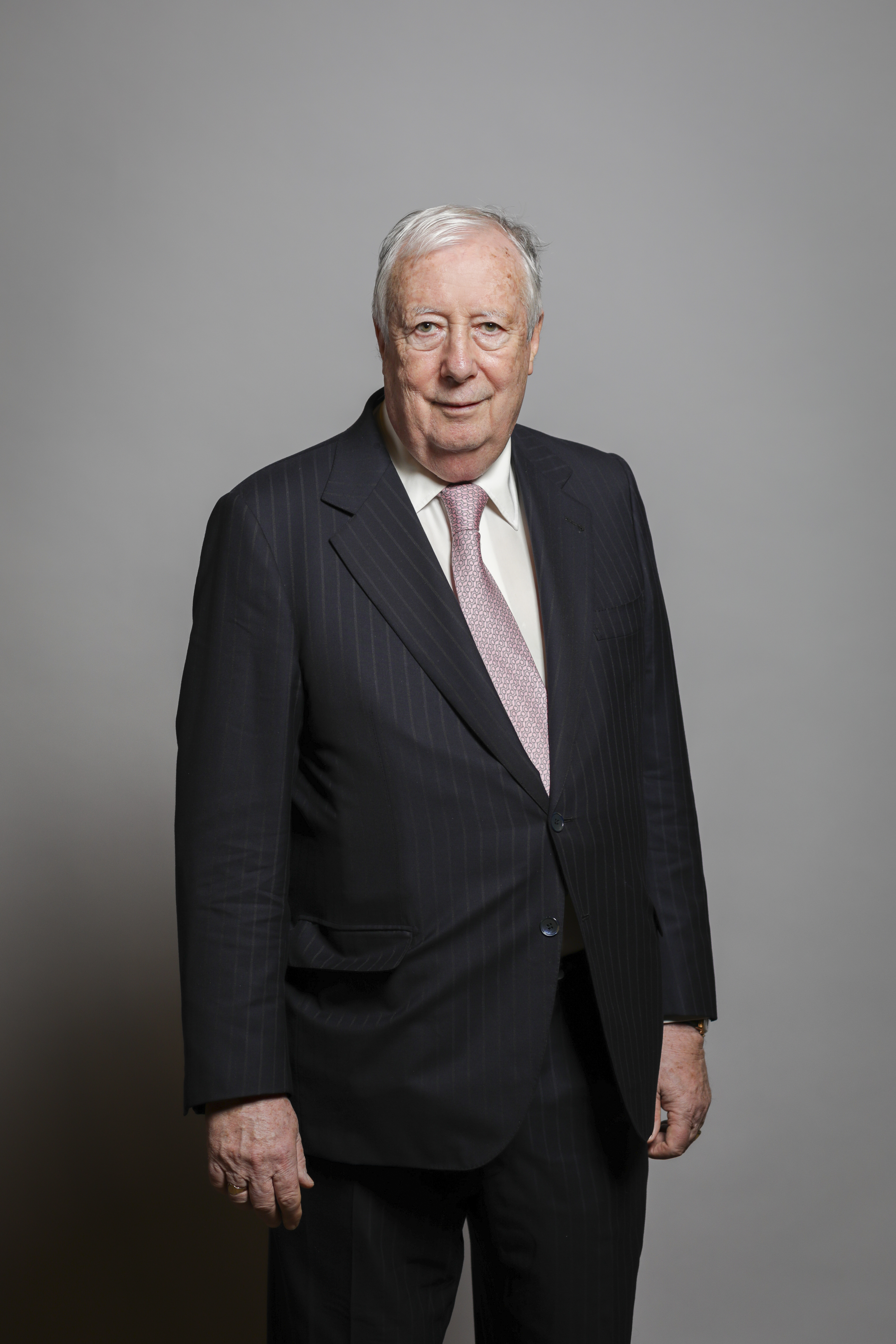 Official portrait of Lord Harris of Peckham Full sized portrait of Lord Harris of Peckham